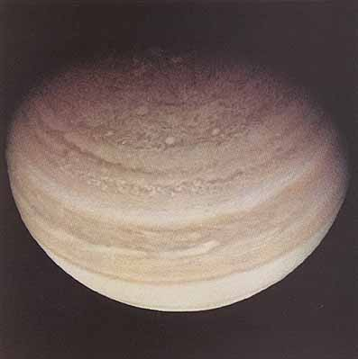 Image D8 of Pioneer 11 Jupiter encounter. Range 1,079,000 km (671,000 mi.), 13 1/2 hours after periapsis.